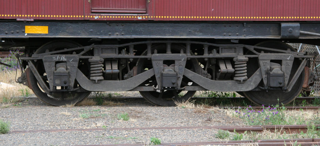 Six wheeled bogies as used on Second Class Victorian Railways E type carriages.